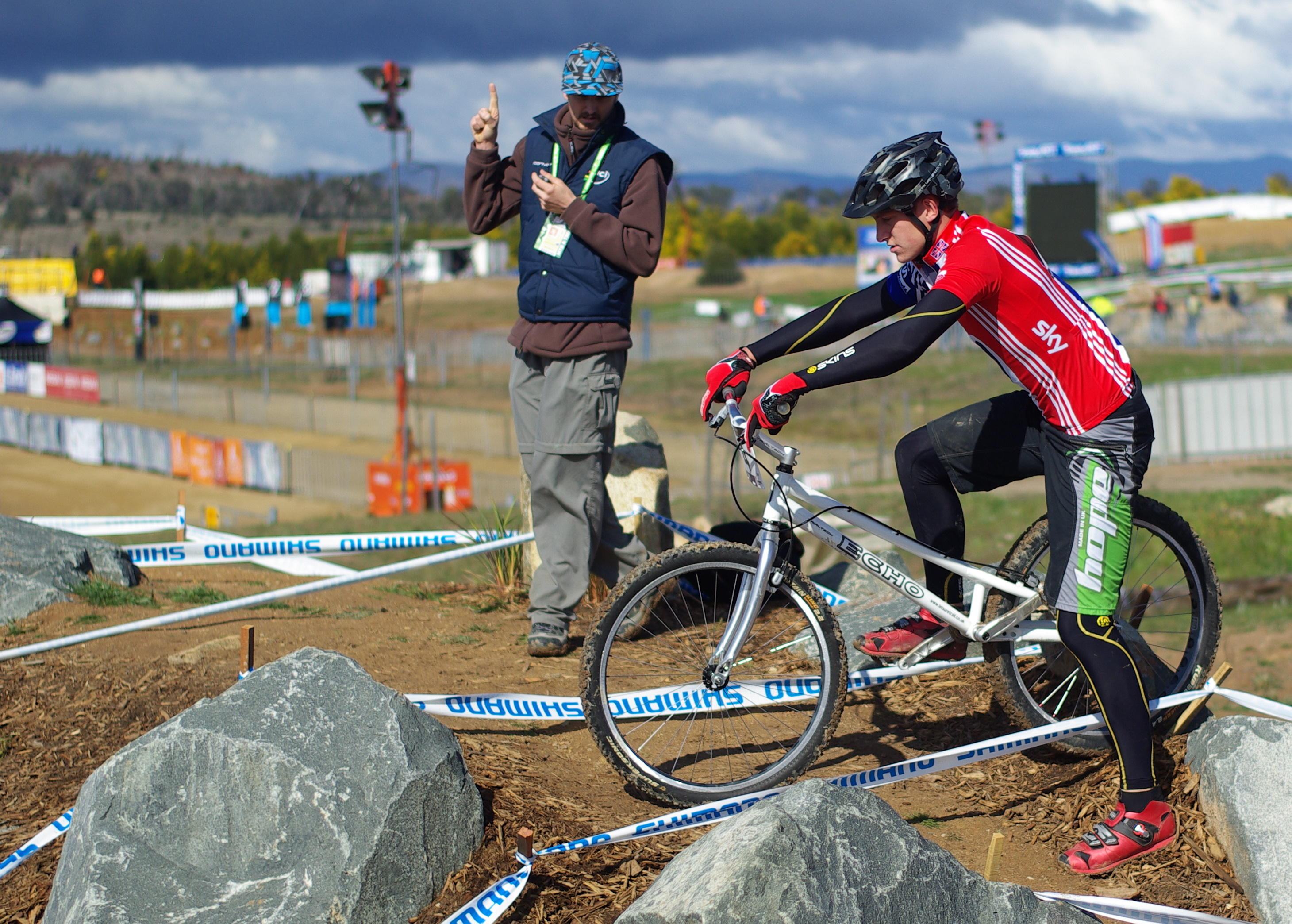 British rider Joe Oakley in the junior men's 26" observed trials semi-finals at the 2009 UCI Mountain Bike & Trials World Championships held in Canberra, Australia.